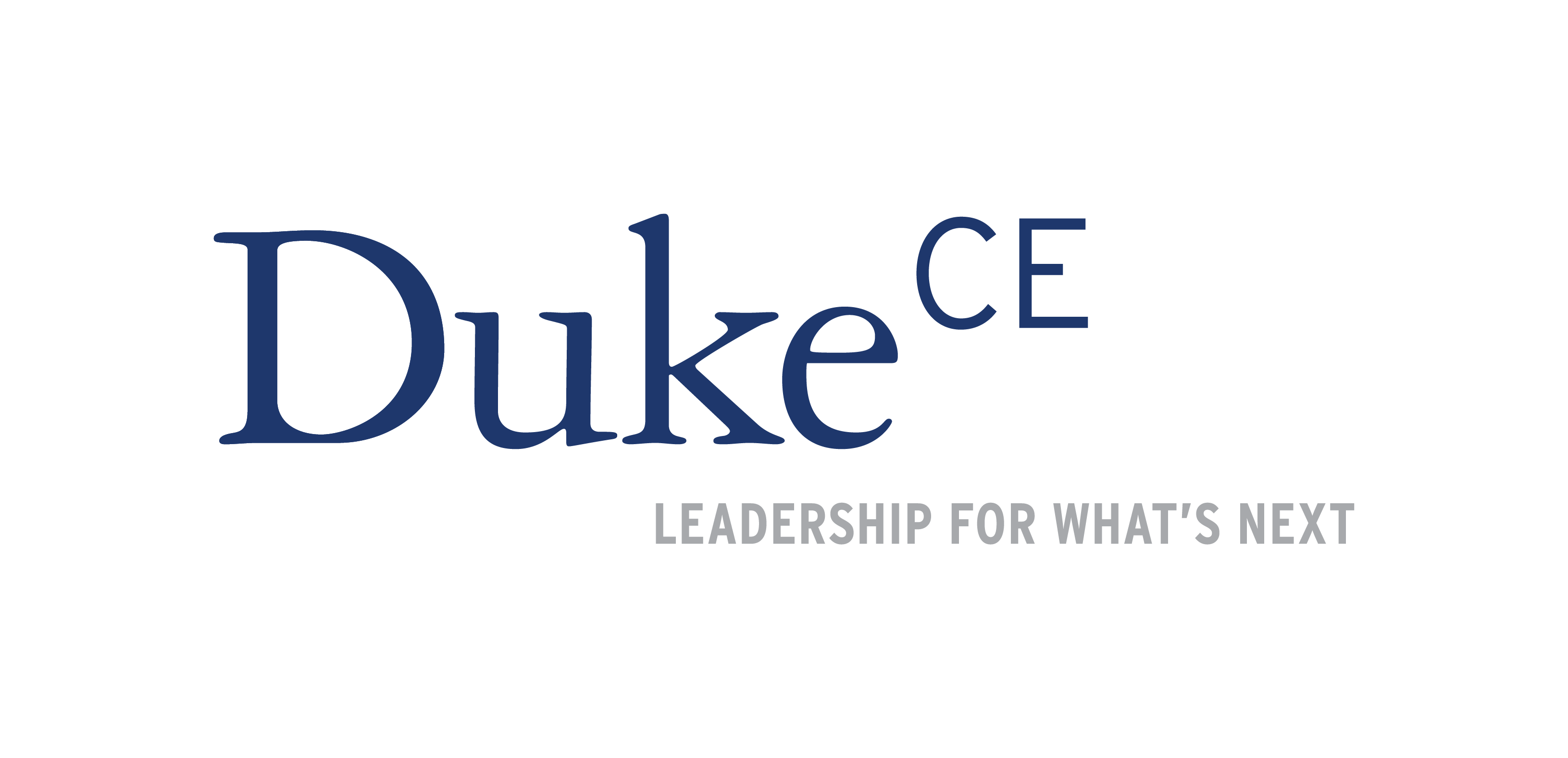 Duke Corporate Education logo